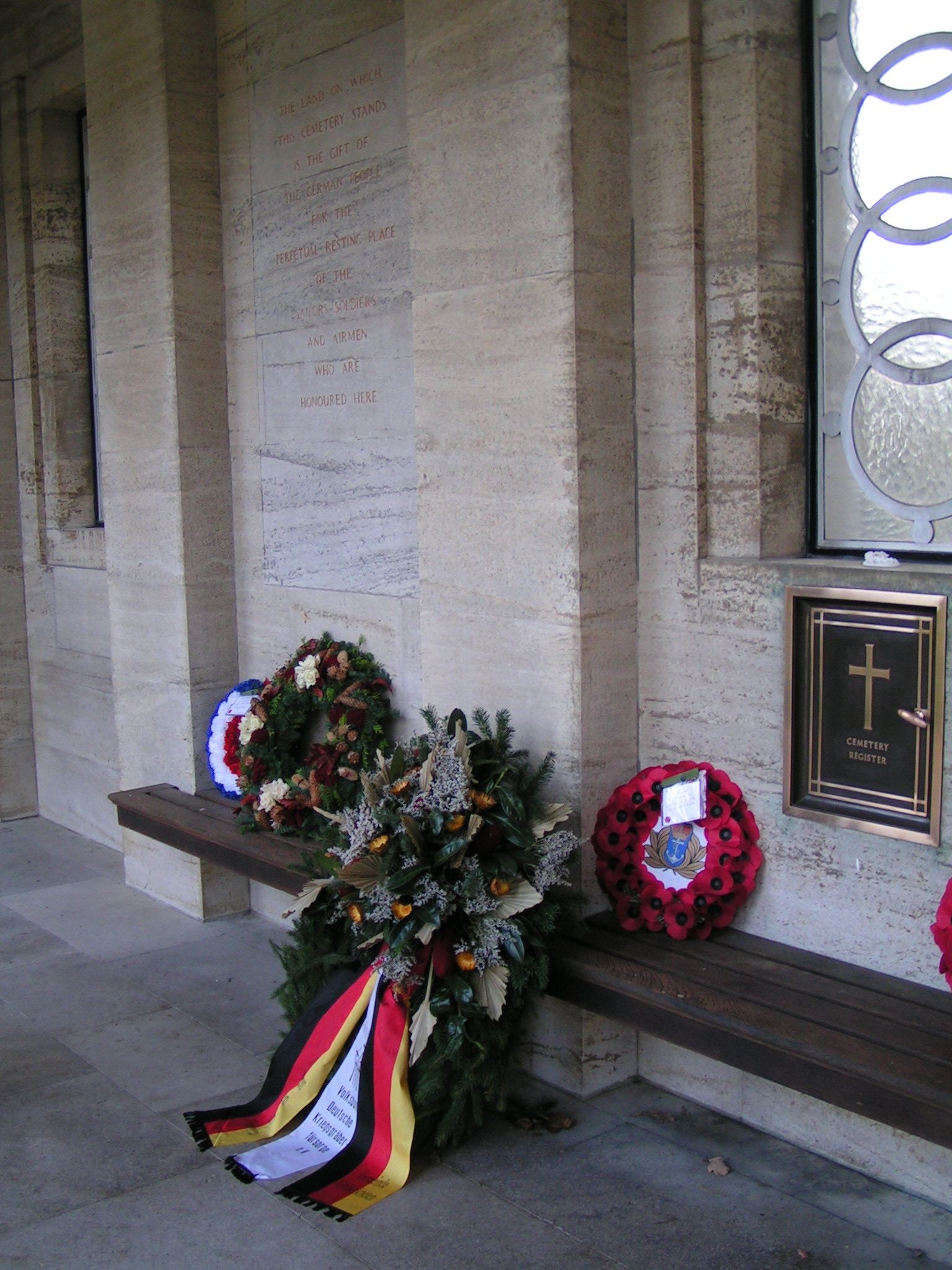 Sage War Cemetery near Oldenburg